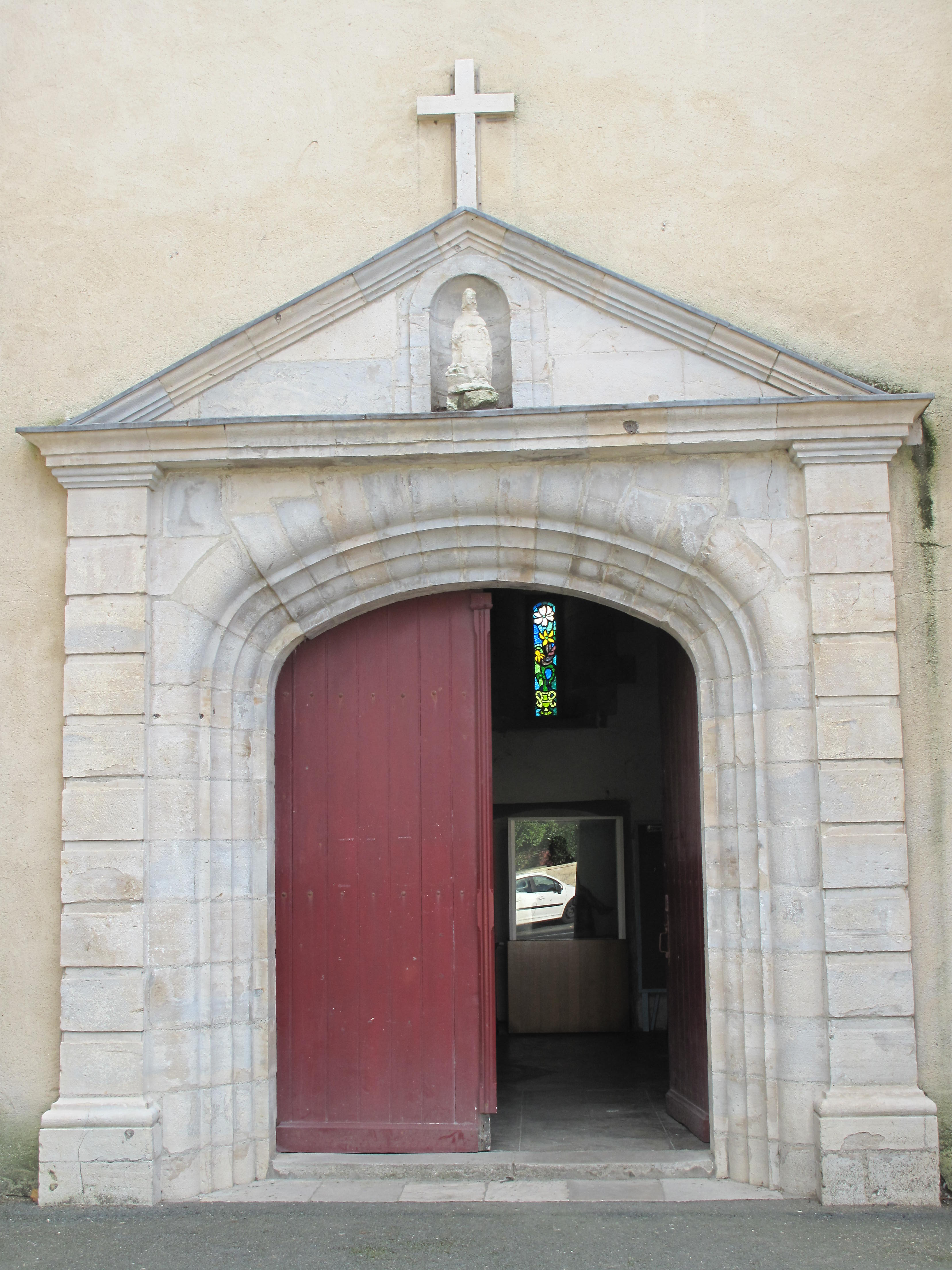 Main portal of the Saint-Nicolas church in Capbreton (Landes, France)